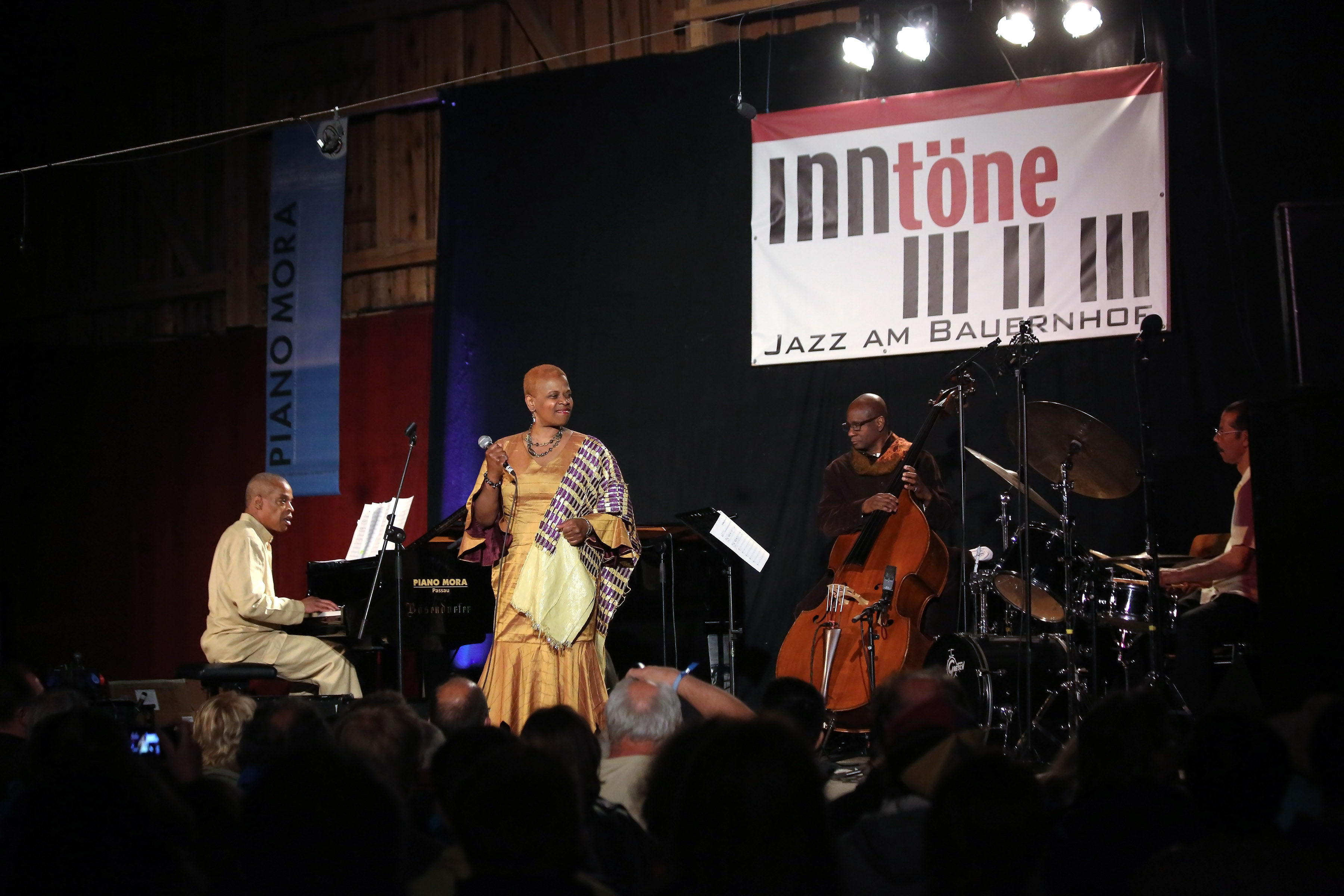 Tulivu-Donna Cumberbatch (voc), Rod Williams (p), Rachiim Ausar Sahu (b), Mark Johnson (dr) - INNtöne Jazzfestival (Diersbach, Upper Austria)